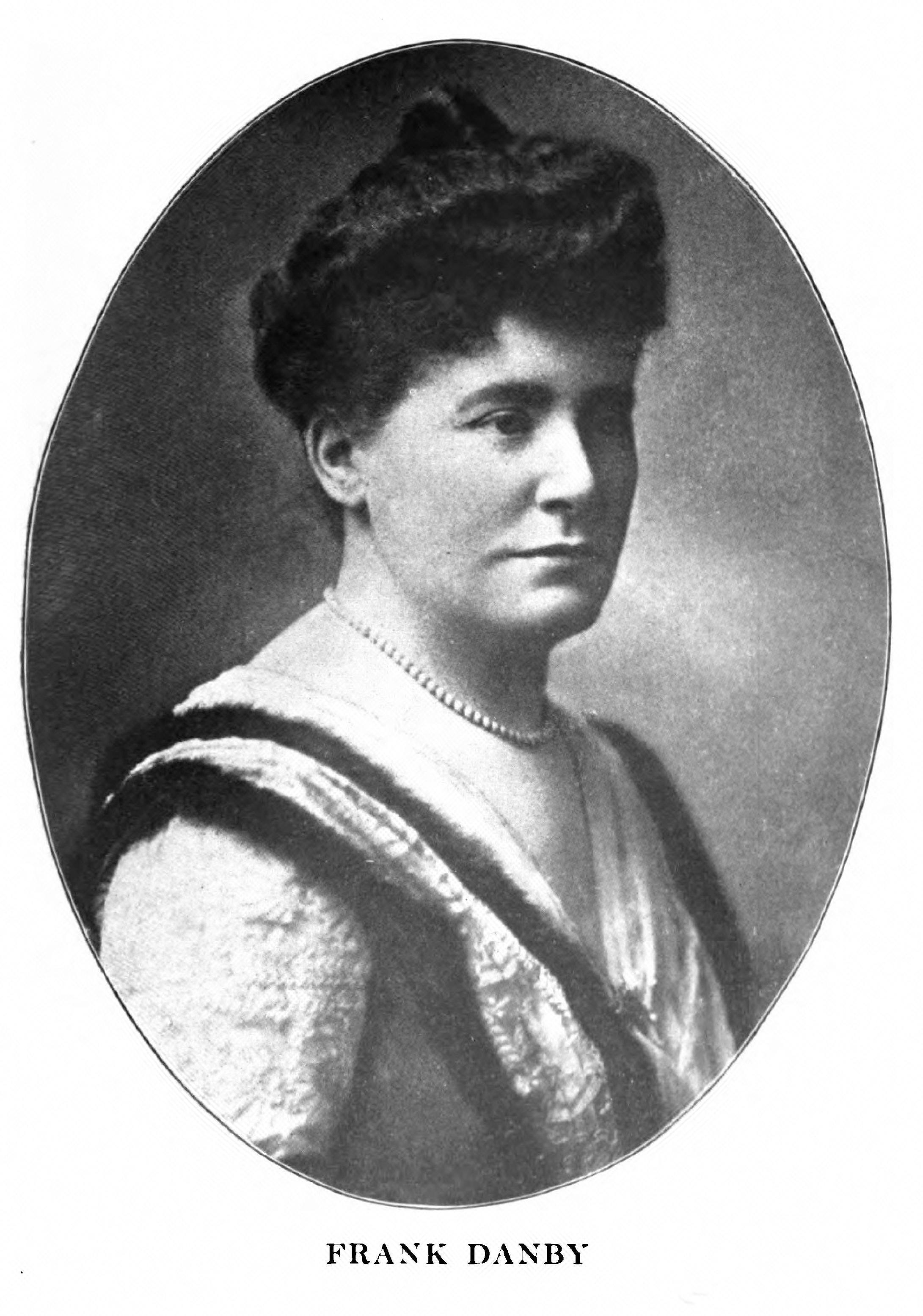 Julia Frankau, née Julia Davis (30 July 1859[1]-17 March 1916) was a successful novelist who wrote under the name Frank Danby.